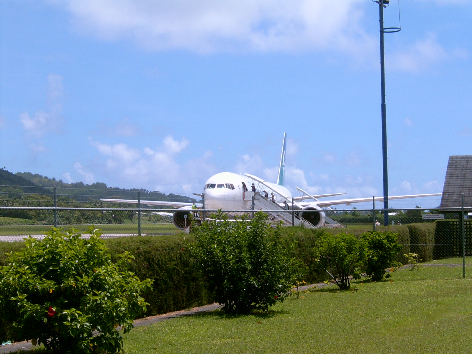 An Air New Zealand airliner at Rarotonga International Airport in the Cook Islands.